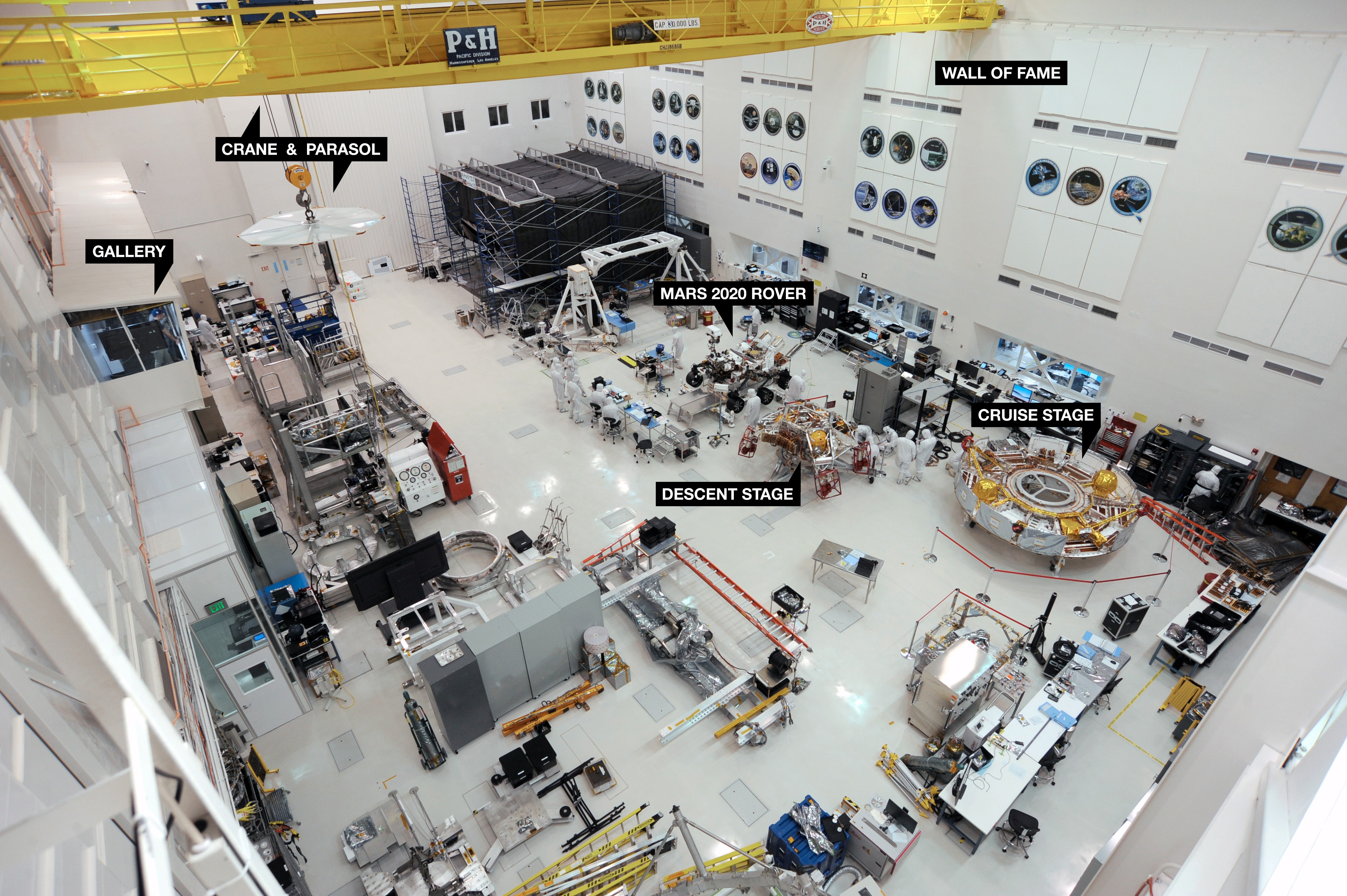 PIA23519: High Bay 1 in JPL's Spacecraft Assembly Facility The Mars 2020 rover is visible (just above center) in this image — taken on Nov. 12, 2019 — of the High Bay 1 clean room floor in JPL's Spacecraft Assembly Facility. Many of NASA's most famous robotic spacecraft were assembled and tested in High Bay 1, including most of the Ranger and Mariner spacecraft; Voyager 1; the Galileo and Cassini orbiters; and all of NASA's Mars rovers. An annotated version of the image points to the facility's Wall of Fame, featuring emblems of those and other spacecraft that successfully launched after being built in the room. It also points to other features of the room, including the facility's gallery, which hosts about 30,000 members of the public each year.